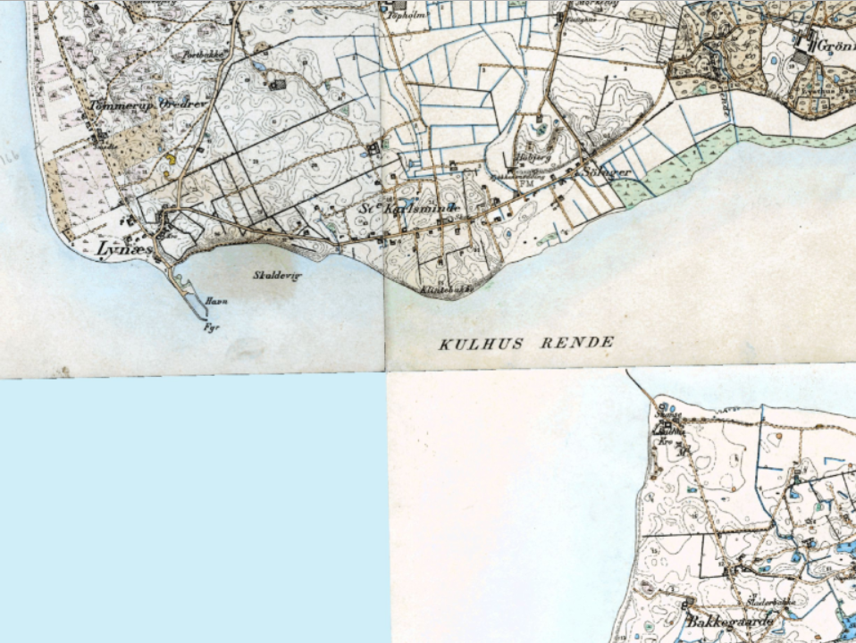 Lynæs ferry in 19th Century